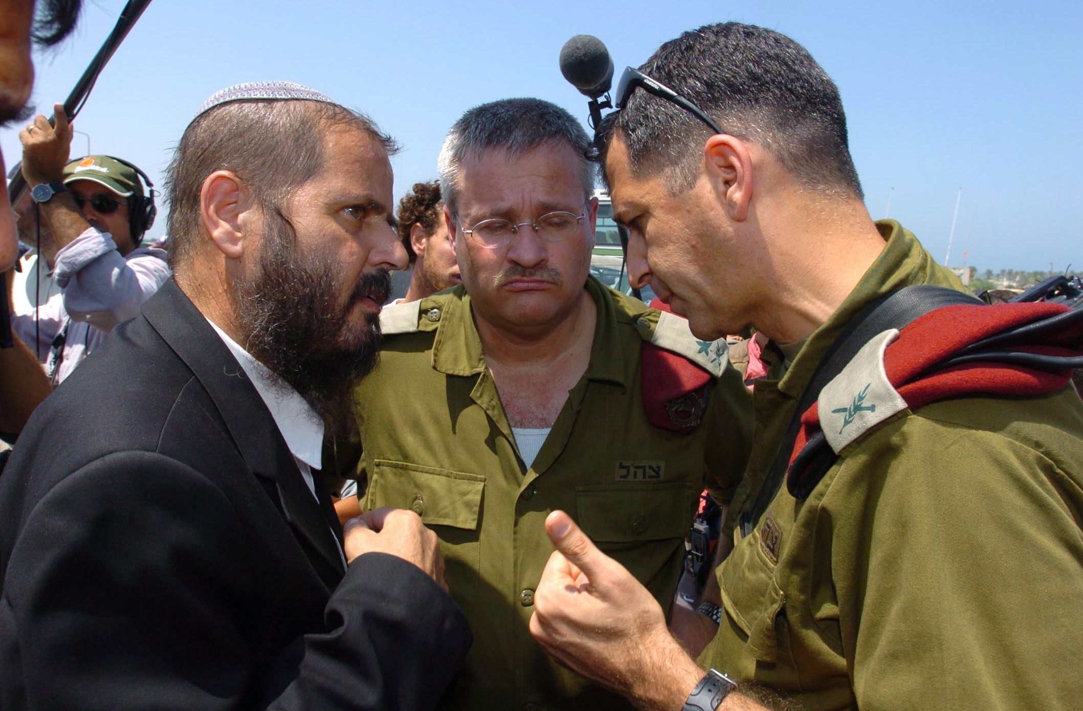 August 15, 2005. The residents of Neve Dekalim are evacuated from Gaza. The evacuation of the Israeli community Neve Dekalim took place as part of the Gaza Disengagement in the summer of 2005.